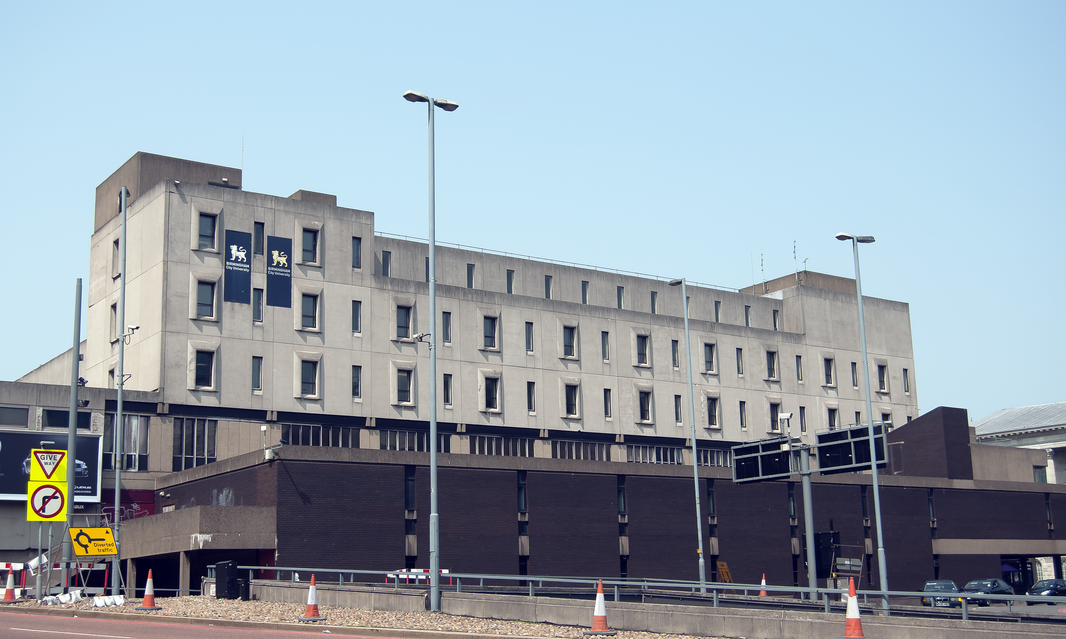 Birmingham School of Music looming over Paradise Circus, built by John Madin in 1974 the building will be demolished as as part of the redevelopment of Paradise Circus.